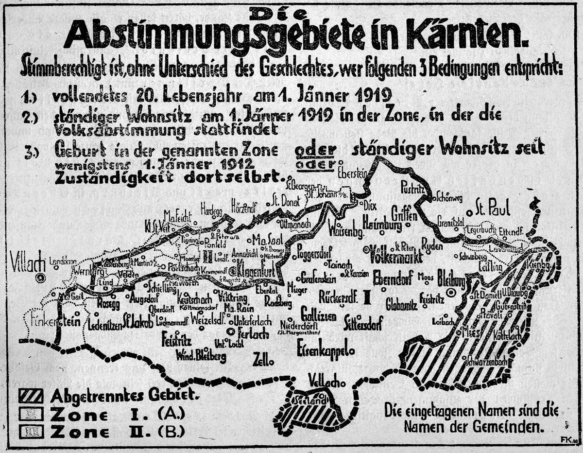 I: Zone A, II: Zone B, Hatched area: Parts annexed by the SHS kingdom without a plebiscite.